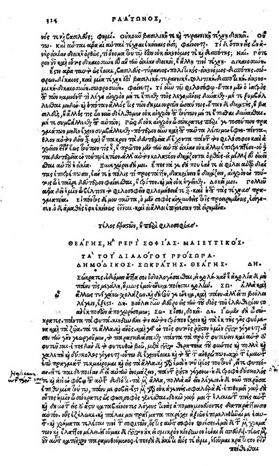 Theages beginning. Editio princeps, Venice 1513.